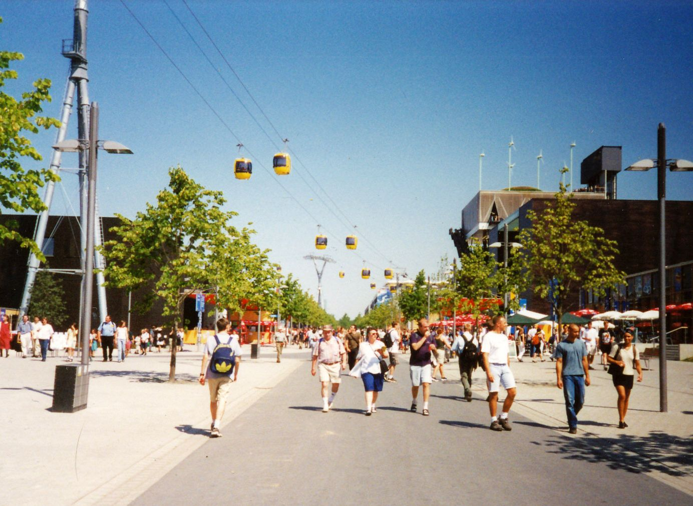 Expo 2000 and the cableway 'Skyliner' (Expo Seilbahn)